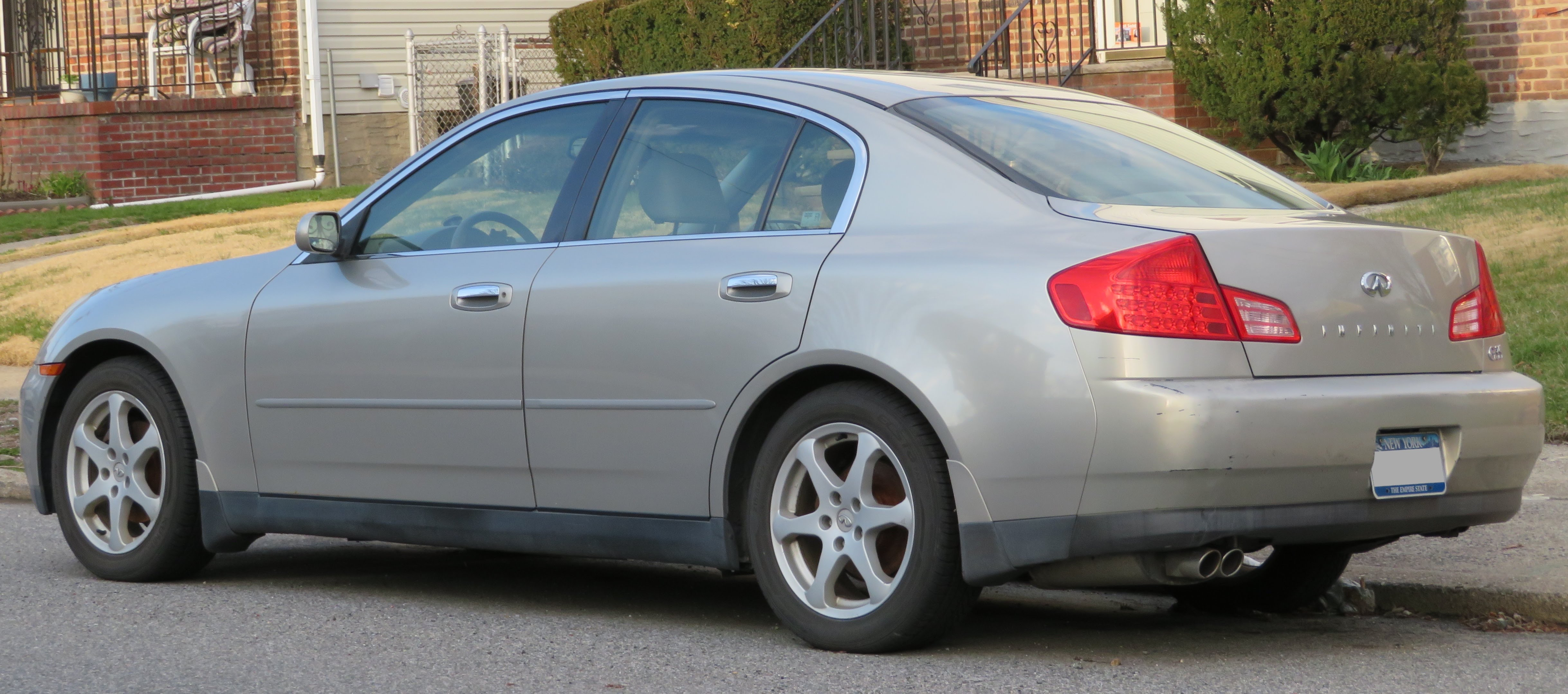 In Queens, New York